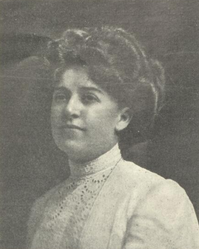 Mildred Esther Lovett (1880-1955) was an early 20th-century Australian artist and influential teacher. Her work included china painting, portraiture and sculpture.